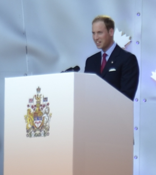 Prince William giving a speech in Ottawa at 2011 Canada Day festivities.